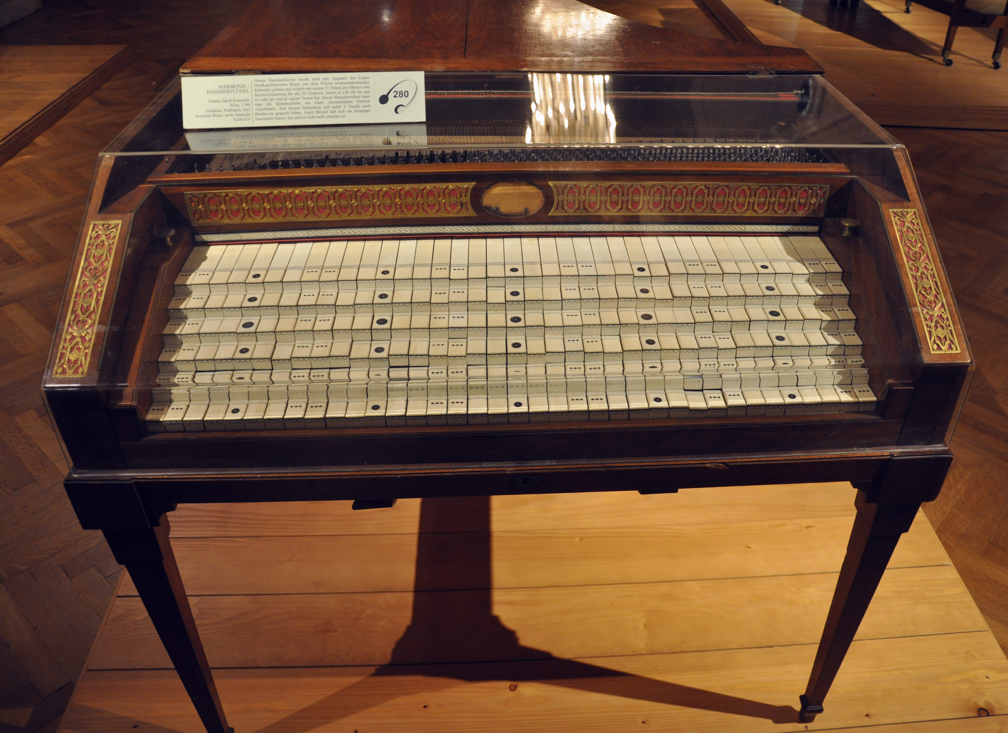 HARMONY - HAMMER WING [Harmony - Fortepiano] Johann Jakob Könnicke Vienna, 1796 Case walnut, five Lonian legs, six manuals SAM 610 This Hammerklavier was built by the Viennese instrumental maker Könnicke according to the details of the Linz Cathedral Orchestra Roser and with its 31 tones per octave allows a re-tuning for all 24 keys, e.g. for dis and es, or gis and as own keys. Manual change allows you to change the pitch of a chromatic semitone. On this instrument, Beethoven and J. Haydn will also have played. Mozart was also able to build such an instrument, which, however, is no longer preserved.